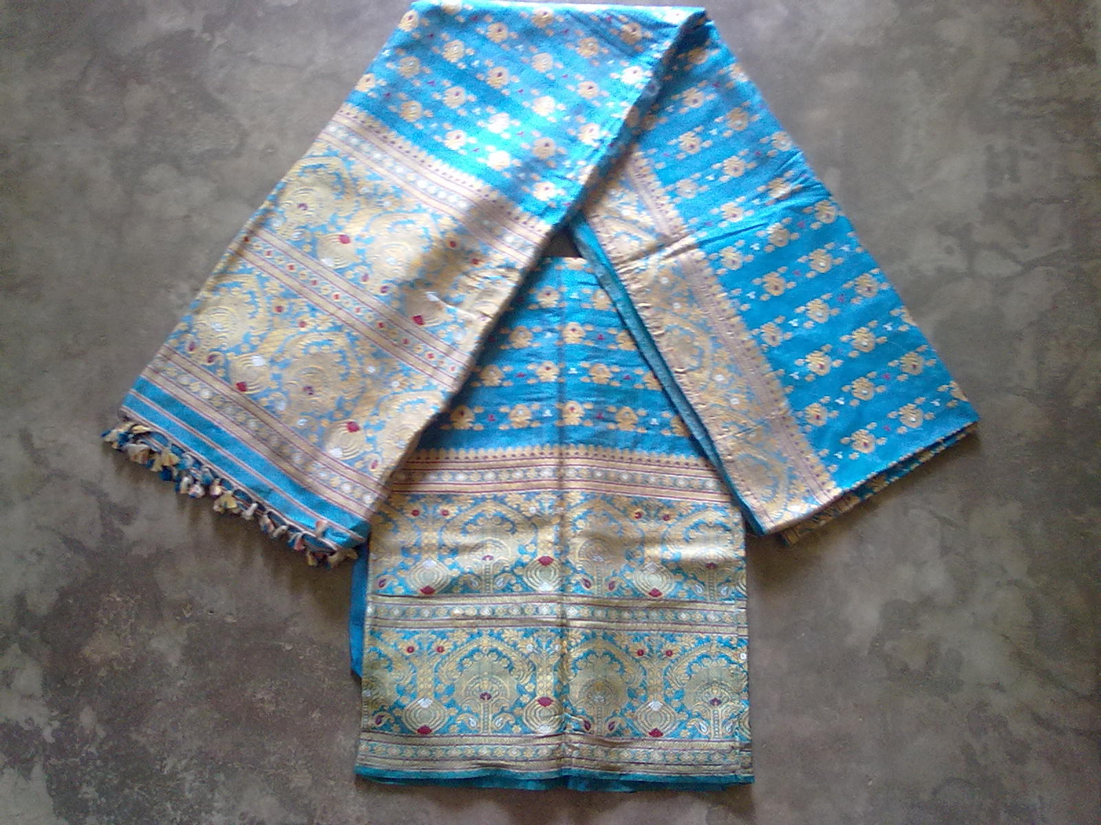 SILK MADE MEKHELA & SADOR